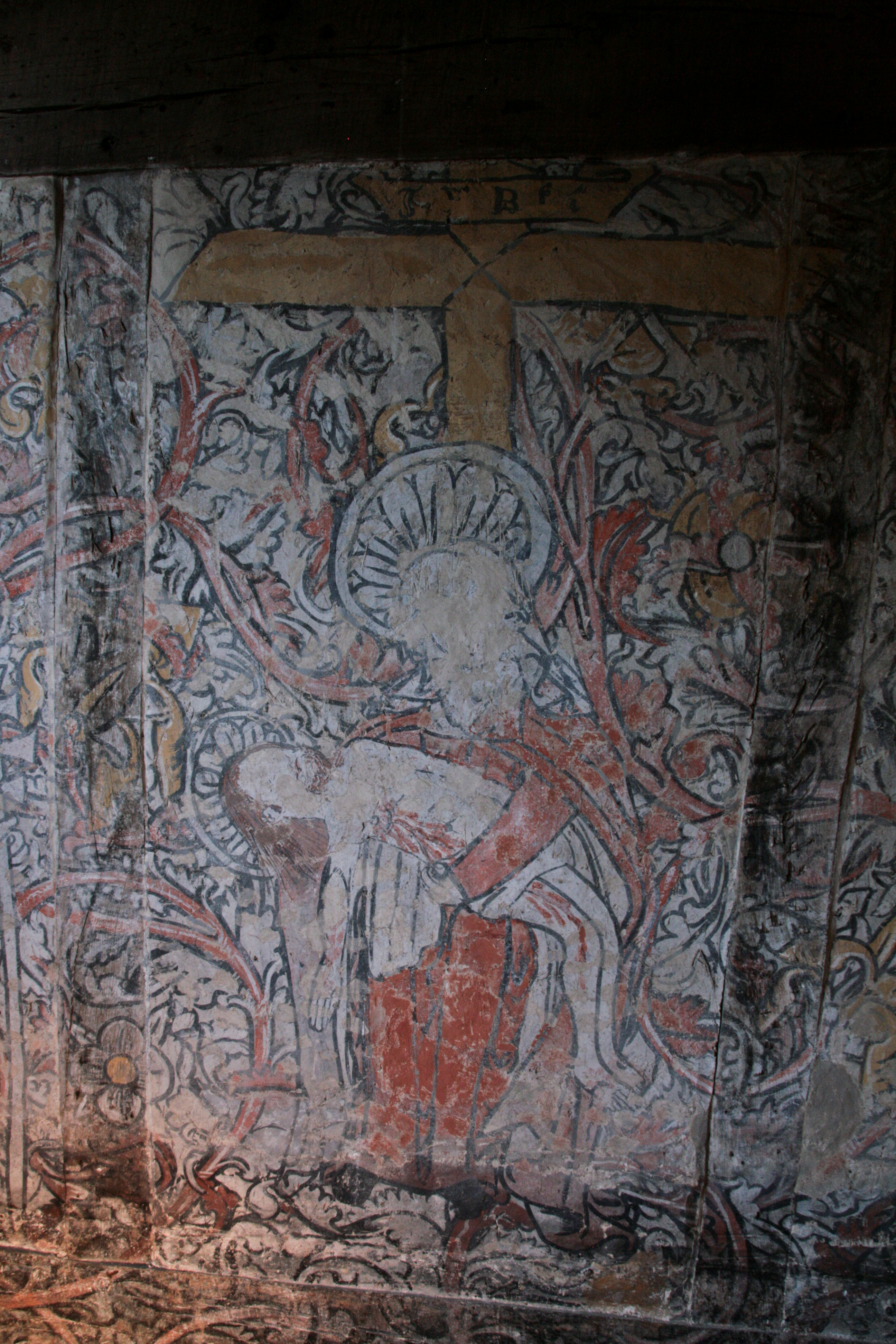 Pietà - the body of the crucified Christ is held before an empty cross by Mary - Preserved wall paintings (c.1529) at 130-136, Piccotts End, Hemel Hempstead, England, UK Wikidata has entry Q17528869 with data related to this item.